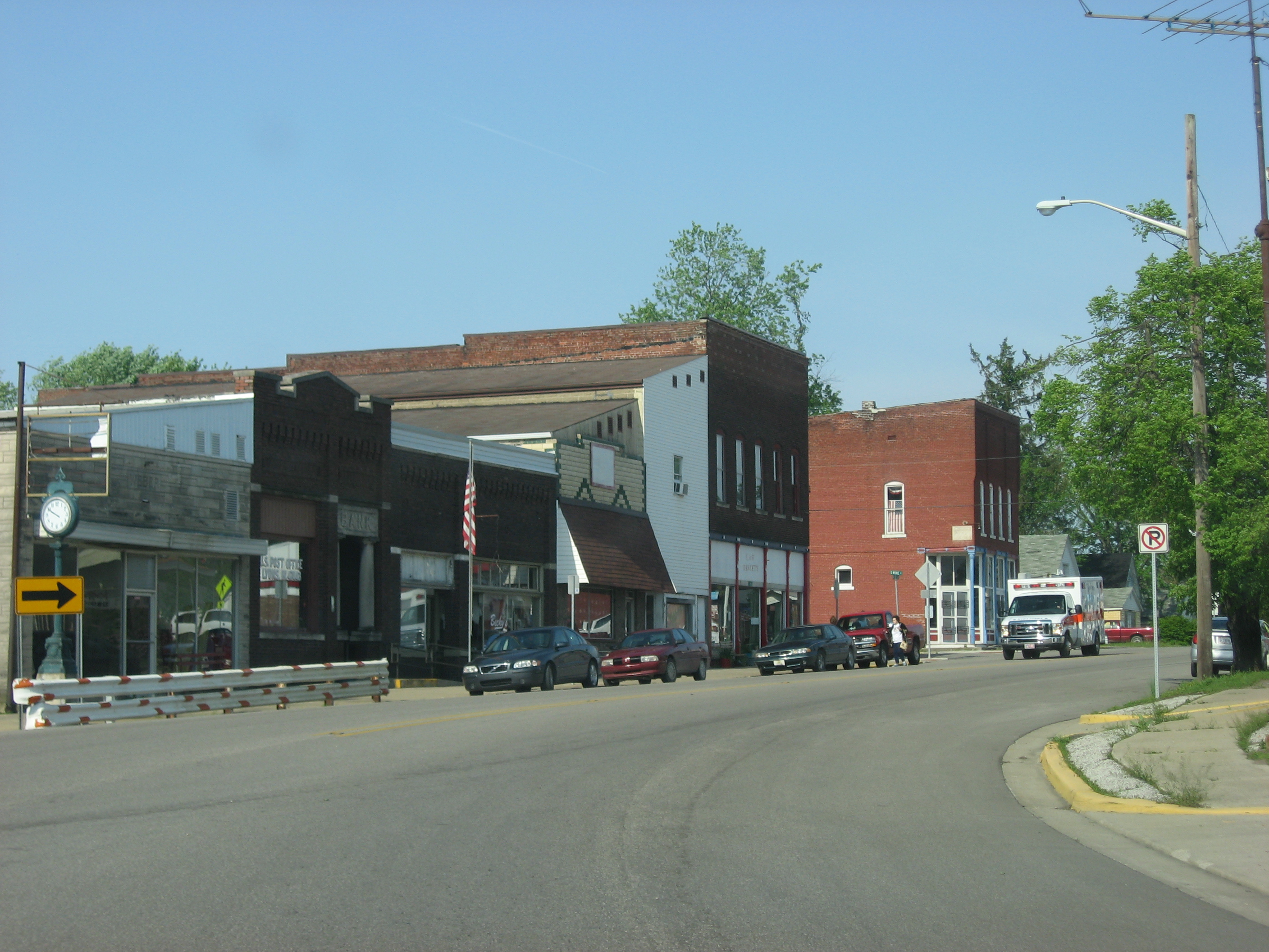 Buildings on the southern side of the 100 block of W. Broad Street (State Road 67) in downtown Lyons, Indiana, United States.